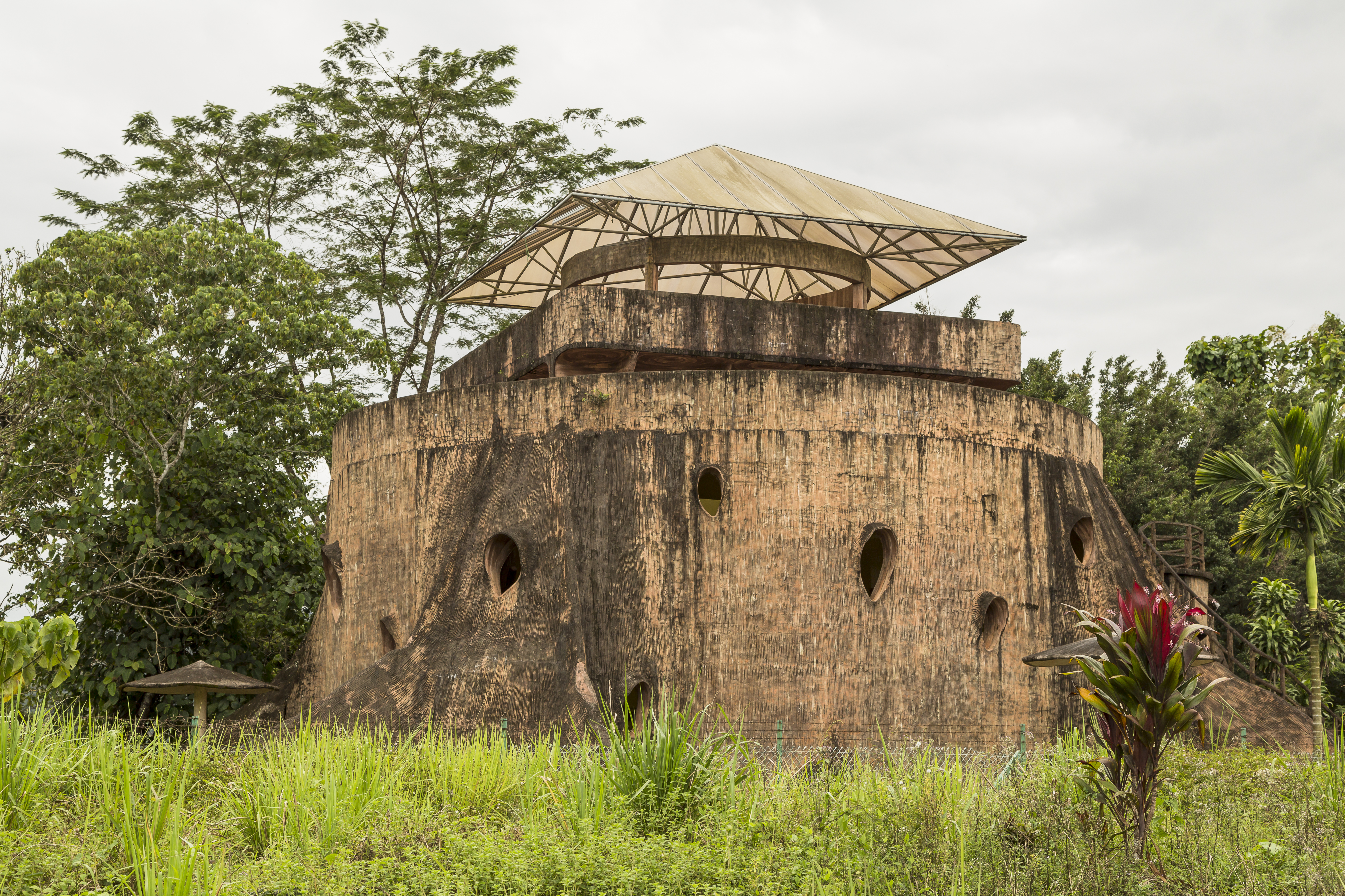 District Ranau, Sabah: Nunuk Ragang, a sacred place of the Dusun people